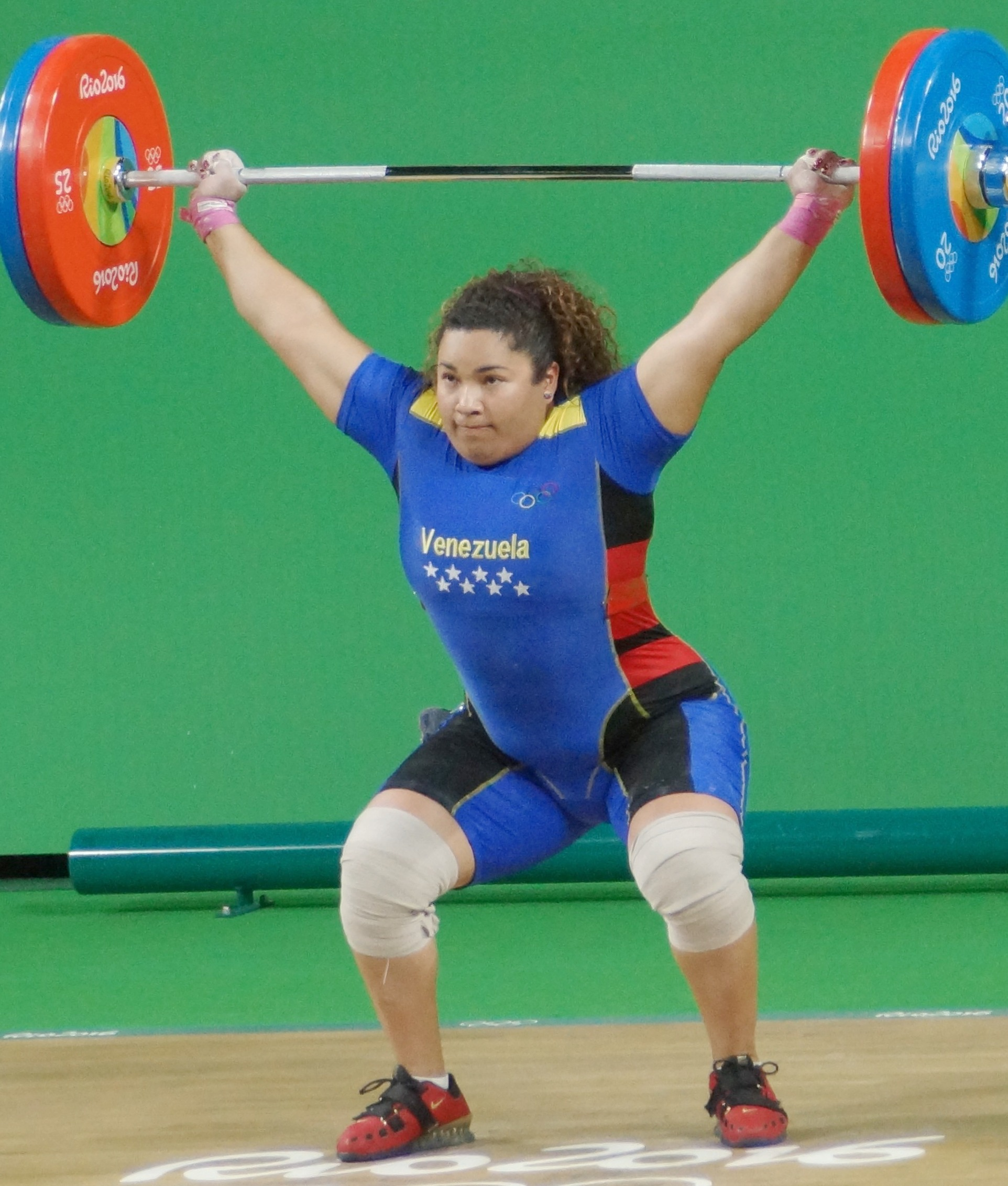 Naryury Pérez, Rio Olympics